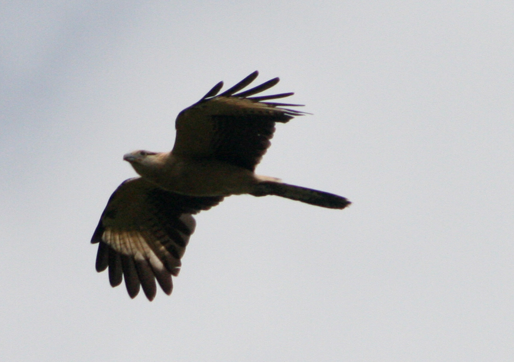 Yellow-headed Caracara in flight, Pedasí, Panama, Sept 2008